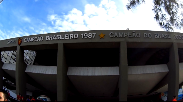 Área frontal da Ilha do Retiro.